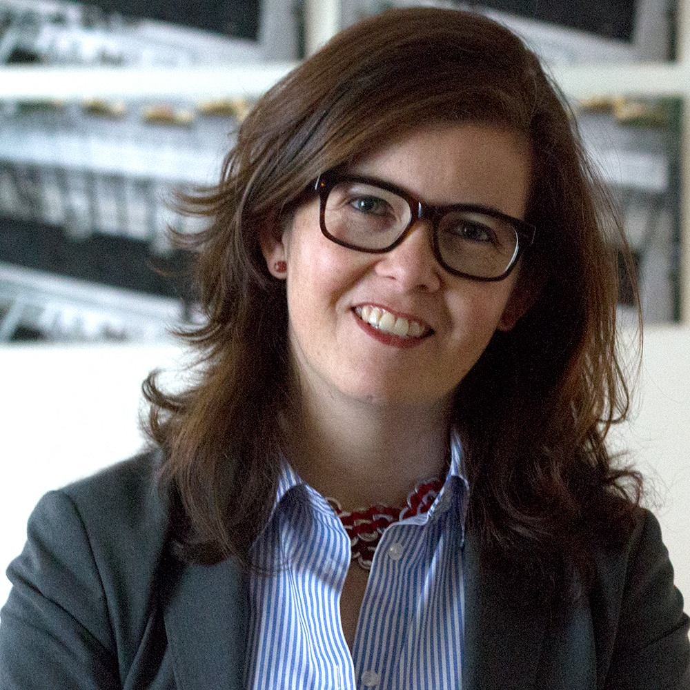 Photo by Raphaele Chappe.